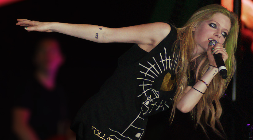 Avril Lavigne on stage, leaning toward the audience, during her Black Star Tour on May 28, 2011. The venue is the Tropicana Field stadium in St. Petersburg, Florida, during the Rays/Hess Express Saturday Concert Series. Photographed on a Sony DSLR-A290.